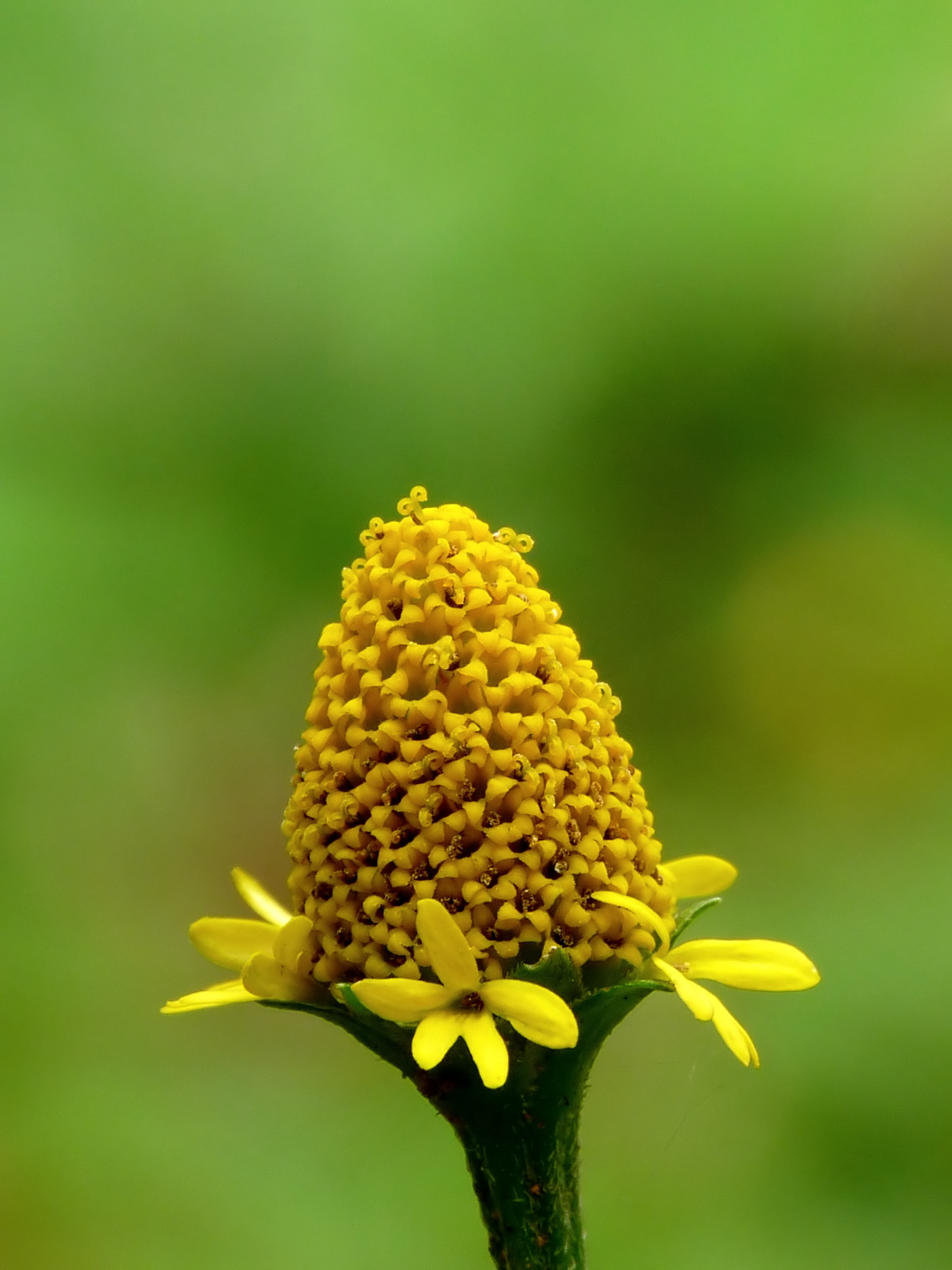 Acmella ciliata, Fringed Pod Toothache Plant is native to South America, widely naturalized in South and South East Asia, is a flowering herb in the plant family Asteraceae. It is a perennial gerb, 30-80 cm tall. Stems are usually prostrate to rising, rooting at nodes, green to purple. Taken at Kadavoor, Kerala, India